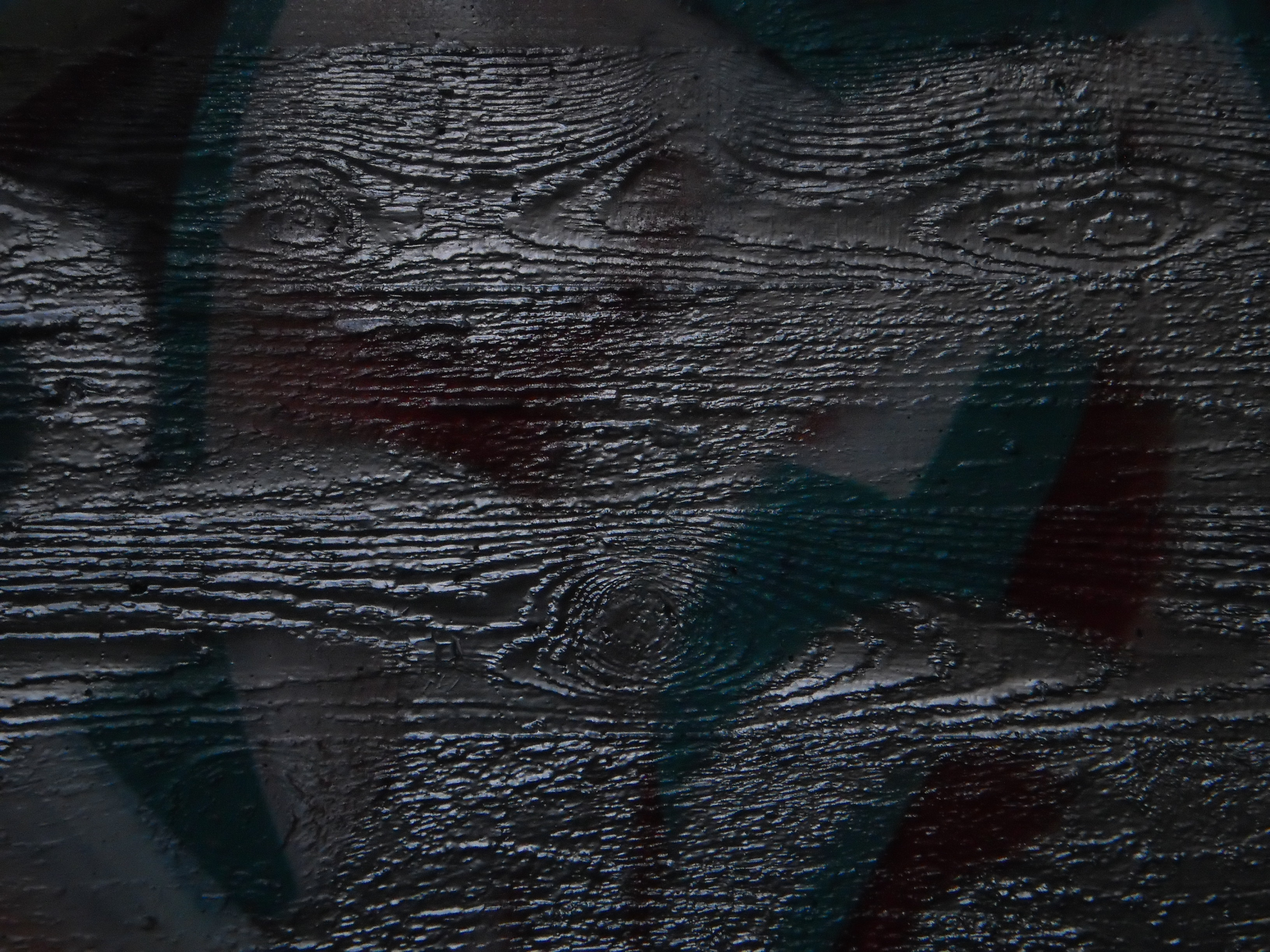 Wood grain texture on a concrete wall, visible with reflections of silver colour of a mixed graffiti in Marburg, photo taken in June 2017.